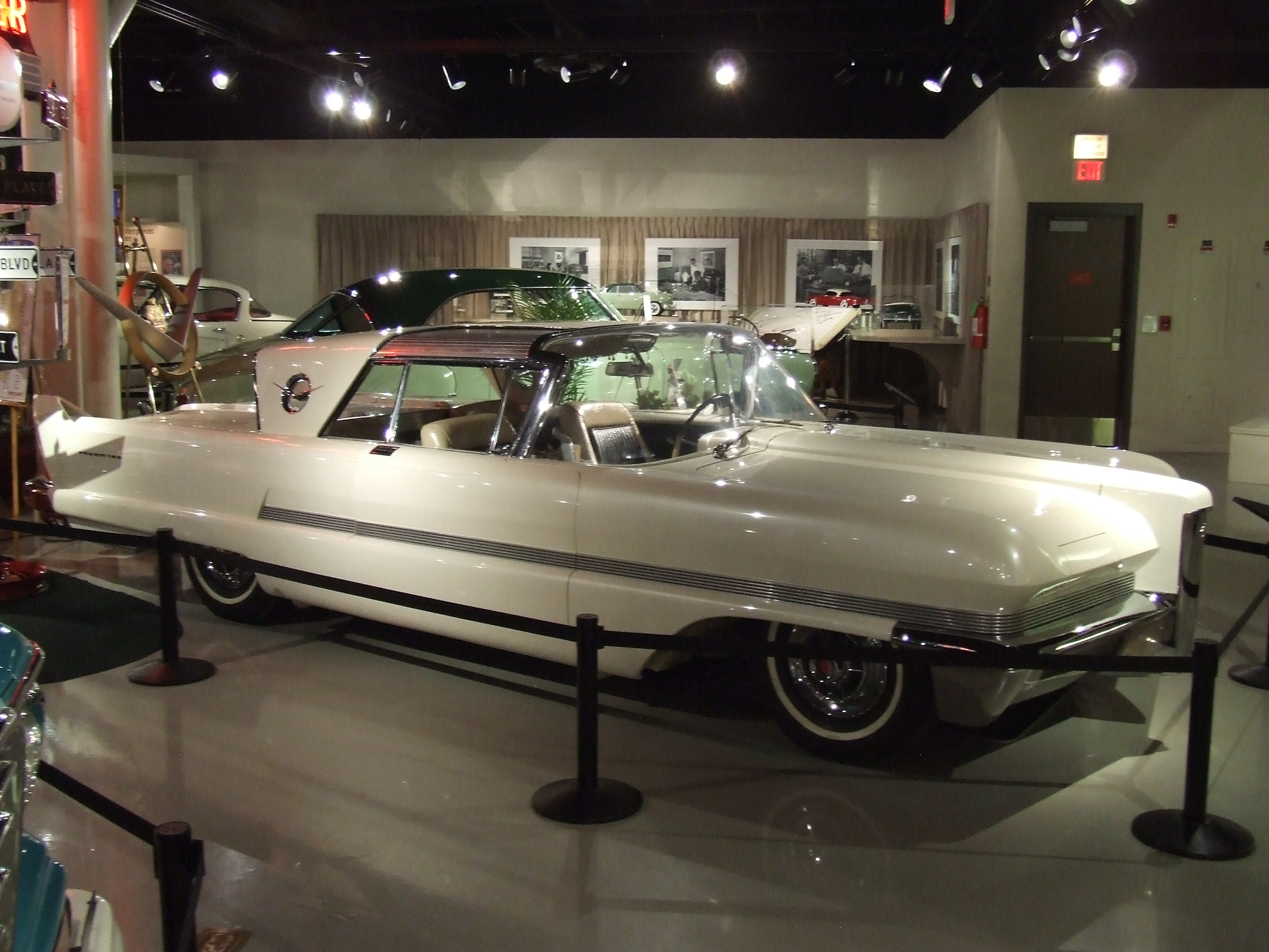 Packard Predictor (1956) at the Studebaker National Museum in South Bend, Indiana.